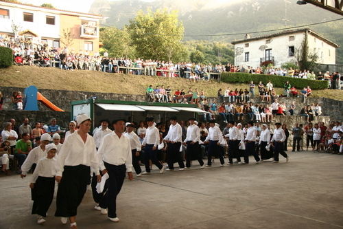 Ingurutxo dance in bedaio, Tolosa